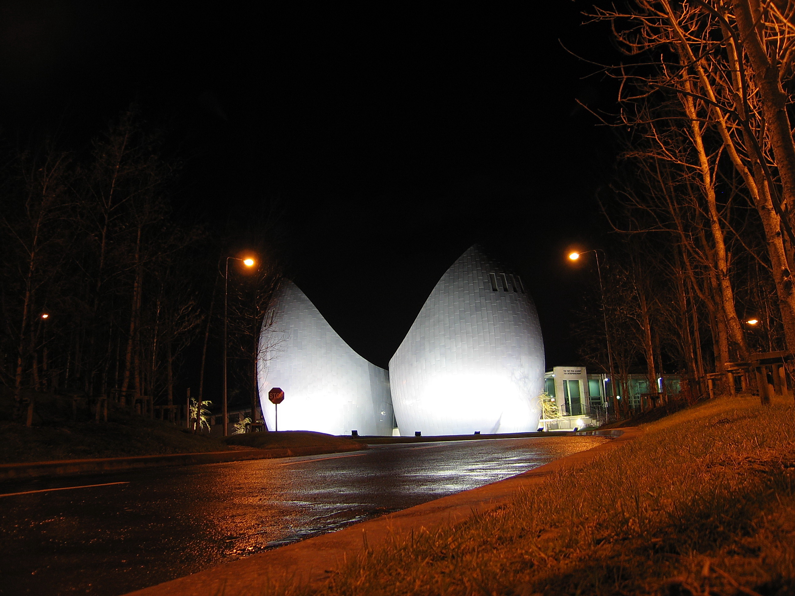 Tony Ryan Academy for Entrepreneurship, Citywest, Dublin. Author comments: "like Godzilla - hatching from giant egg-thingy".